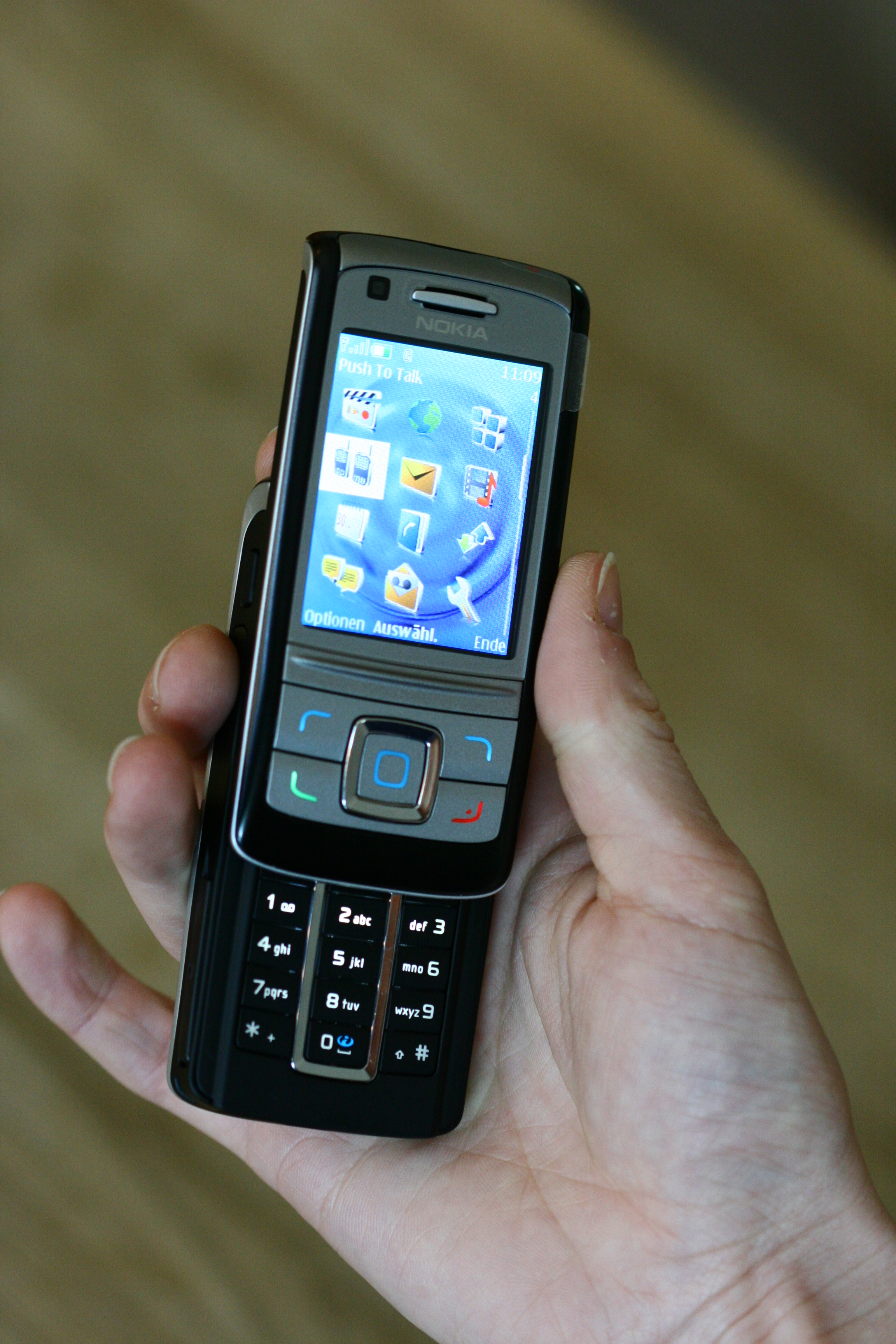 A Nokia 6280 mobile phone (A1-edition), an UMTS cell-phone